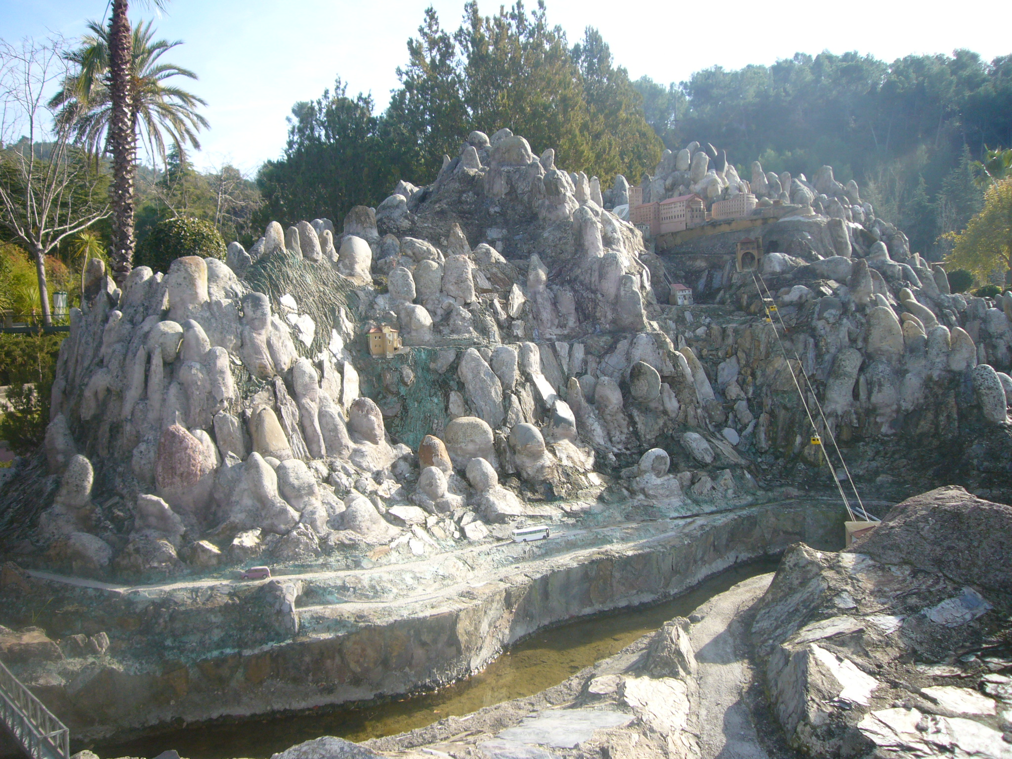 Scale model at the "Catalunya en Miniatura" miniature park : Montserrat mountain, with the monastery, and with the “aeri de montserrat” cable car.